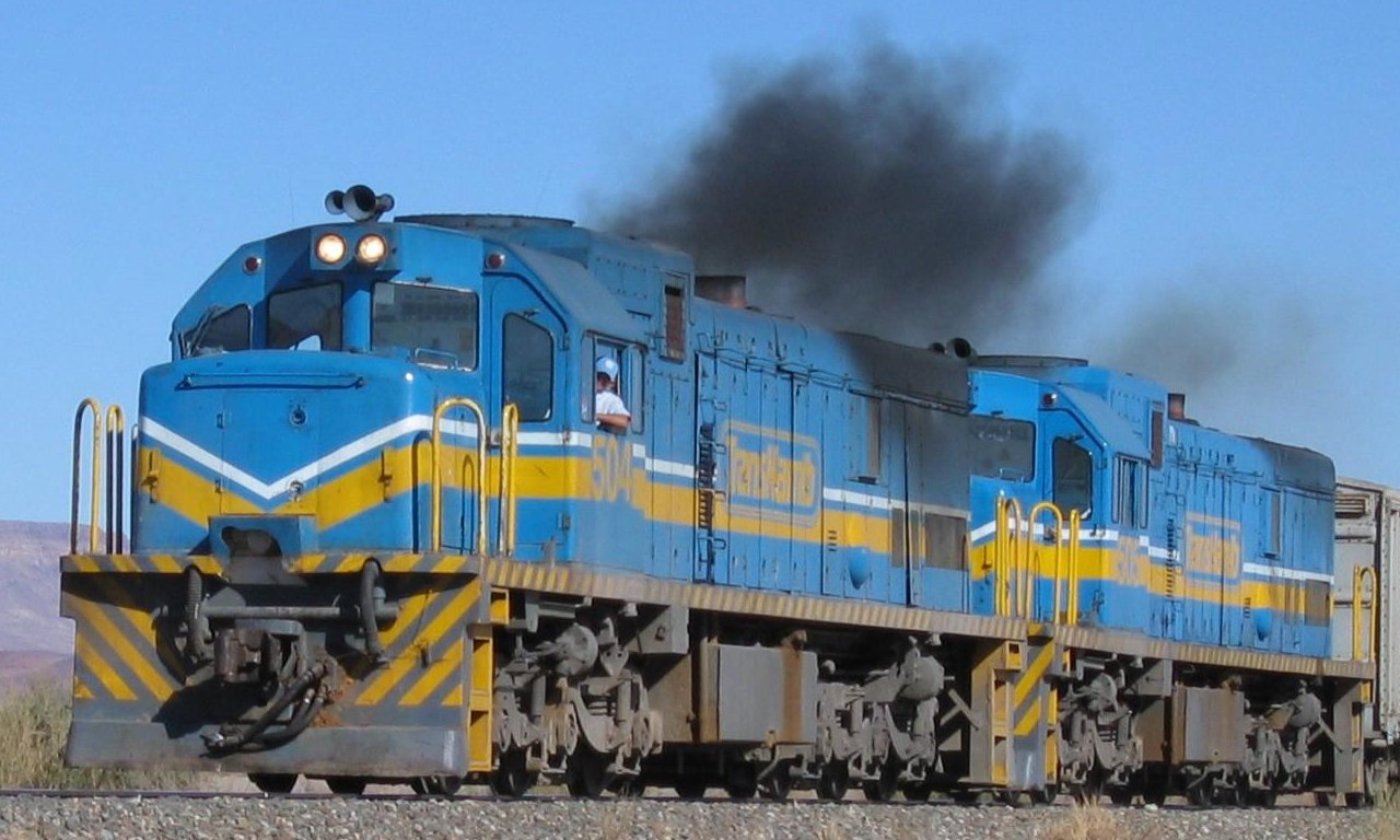 Two ex-SAR Class 33 locomotives hauling a TransNamib train south of Keetmanshoop